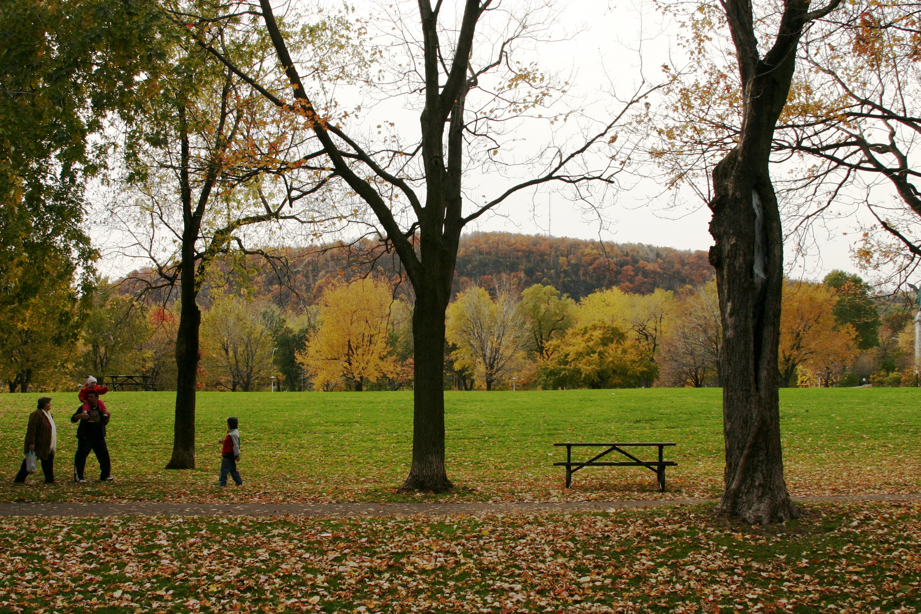 Jeanne-Mance Park, Montreal, Quebec, Canada. In background, stands the Mount-Royal.